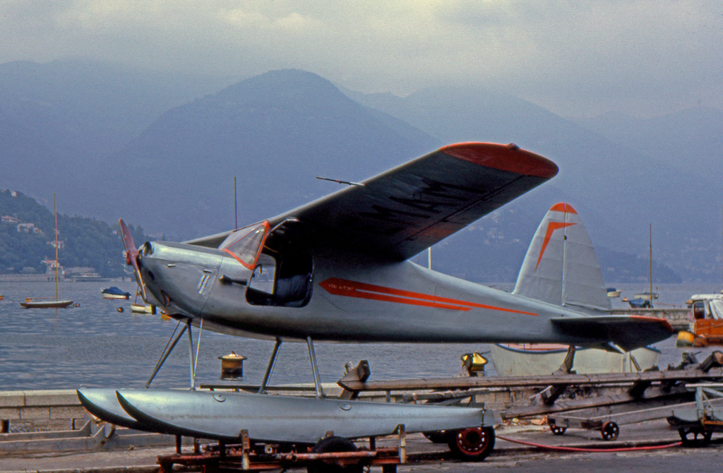 Macchi MB.308 I-EMAM on floats at Como, Italy, in 1965